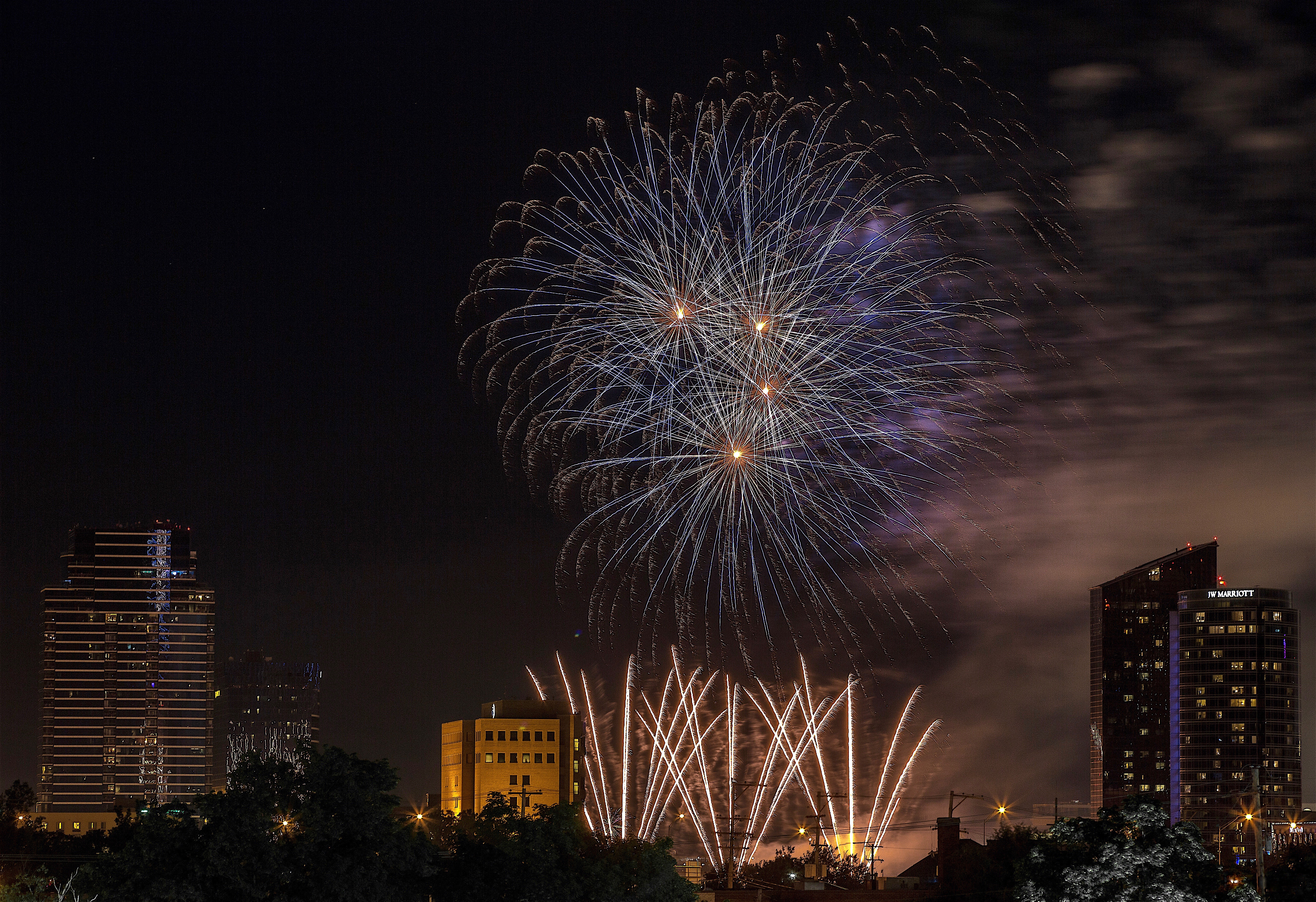 Independence Day celebratory fireworks in Grand Rapids, Michigan.